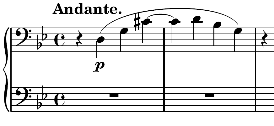 Opening of "Nuages gris" composed by Franz Liszt, made in lilypond version 2.12.0